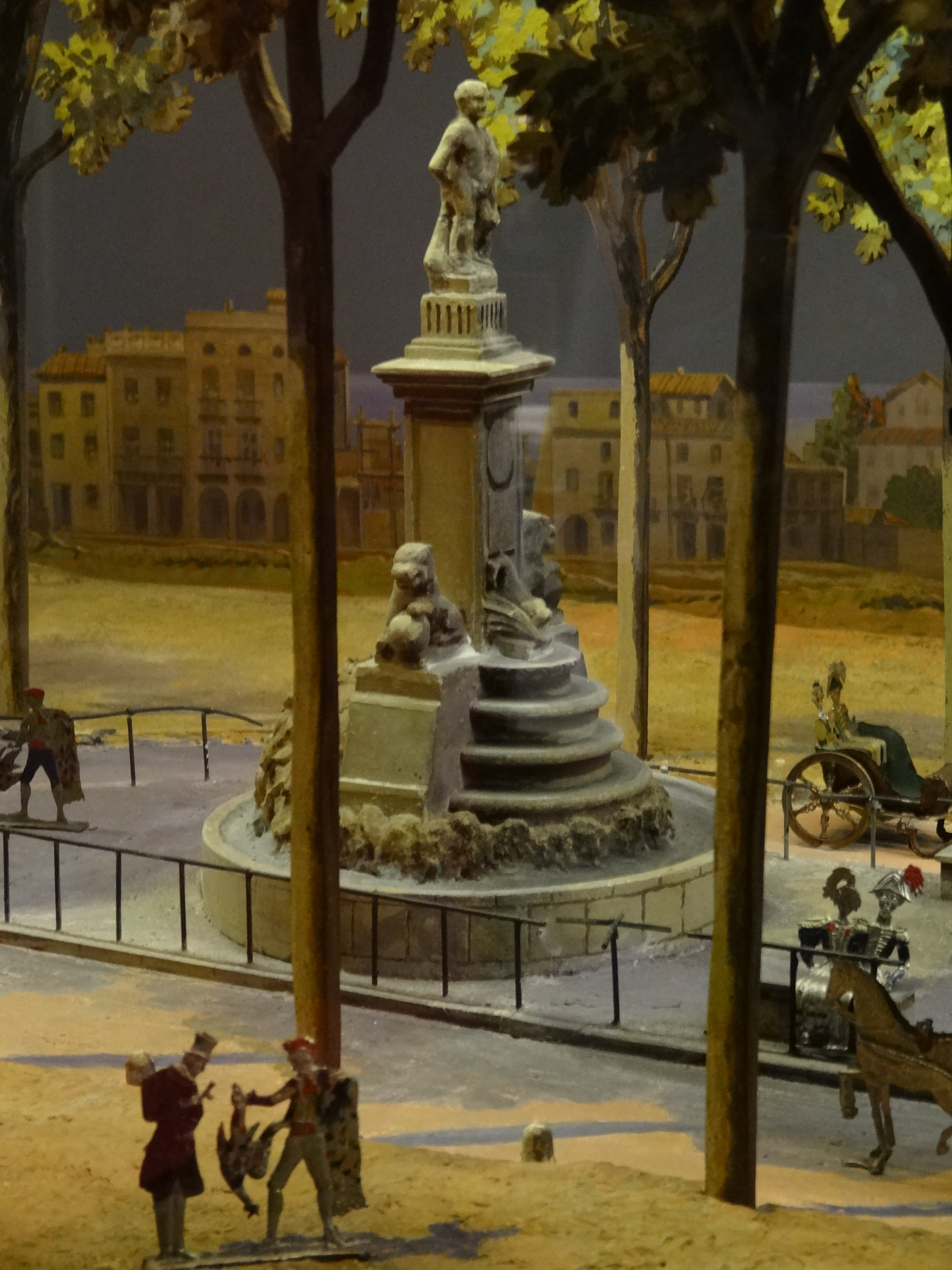 Permanent exhibition on the Barcelona of the year 1700. at Born Centre Cultural.